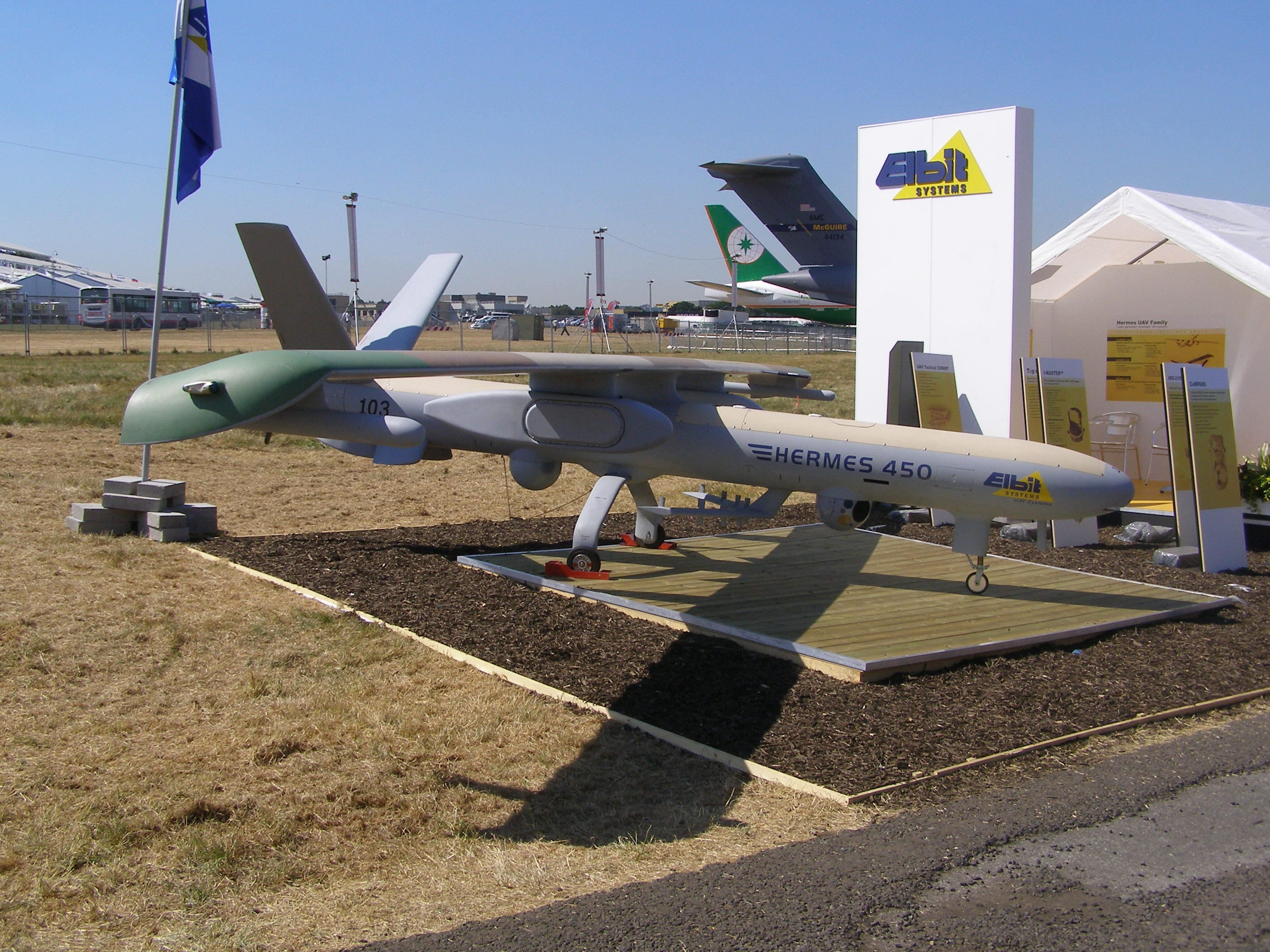 Elbit System Hermes 450 on display at Farnborough Air Show England in July 2006. This Hermes 450 has SIGINT configuration designated Skyfix that incorporates an Elisra AES-210 combined electronic support measures/ELINTdirection-finding system and a Tadiran Electronic Systems communications intelligence suite. The suite comprises two spiral antennas mounted in wingtip pods and two interferometer arrays mounted in pods attached to inboard wing hardpoints. The COMINT suite includes eight antennas mounted on a wing suspended beneath the UAV's fuselage.